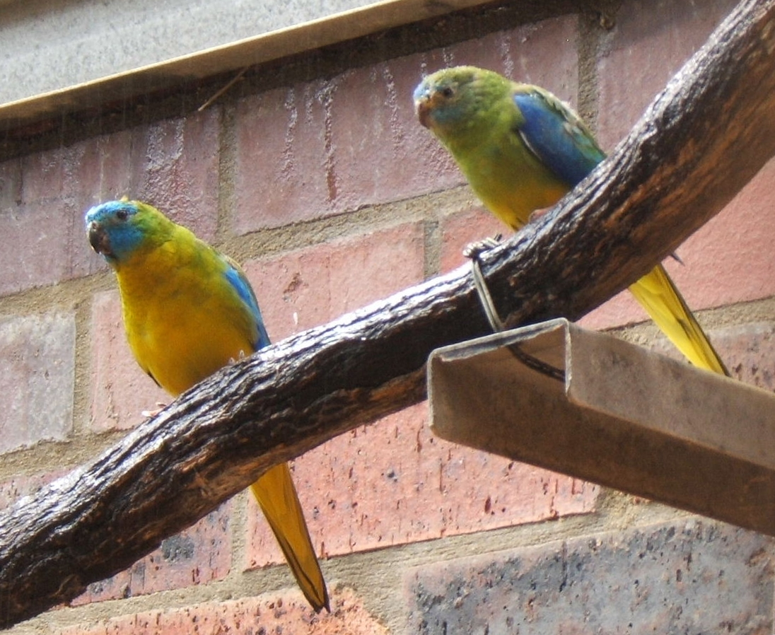 Turquoise Parrot at Rainbow Jungle (The Australian Parrot Breeding Centre), Kalbarri, Western Australia.